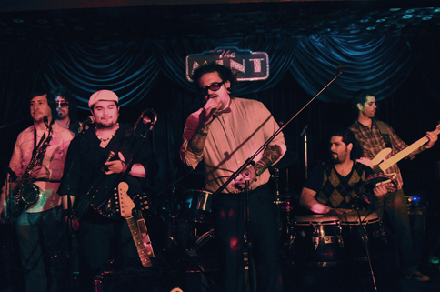 B-Side Players - Live in Concert at The Mint [1](photo by Scott Dudelson)